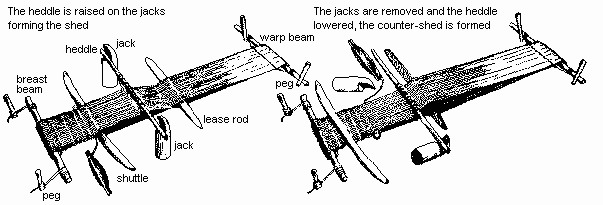 H.E.Winlock's working model of a Middle Kingdom horizontal loom showing the use of heddle jacks. H.E.Winlock Heddle Jacks of Middle Kingdom Looms, Ancient Egypt, 1922